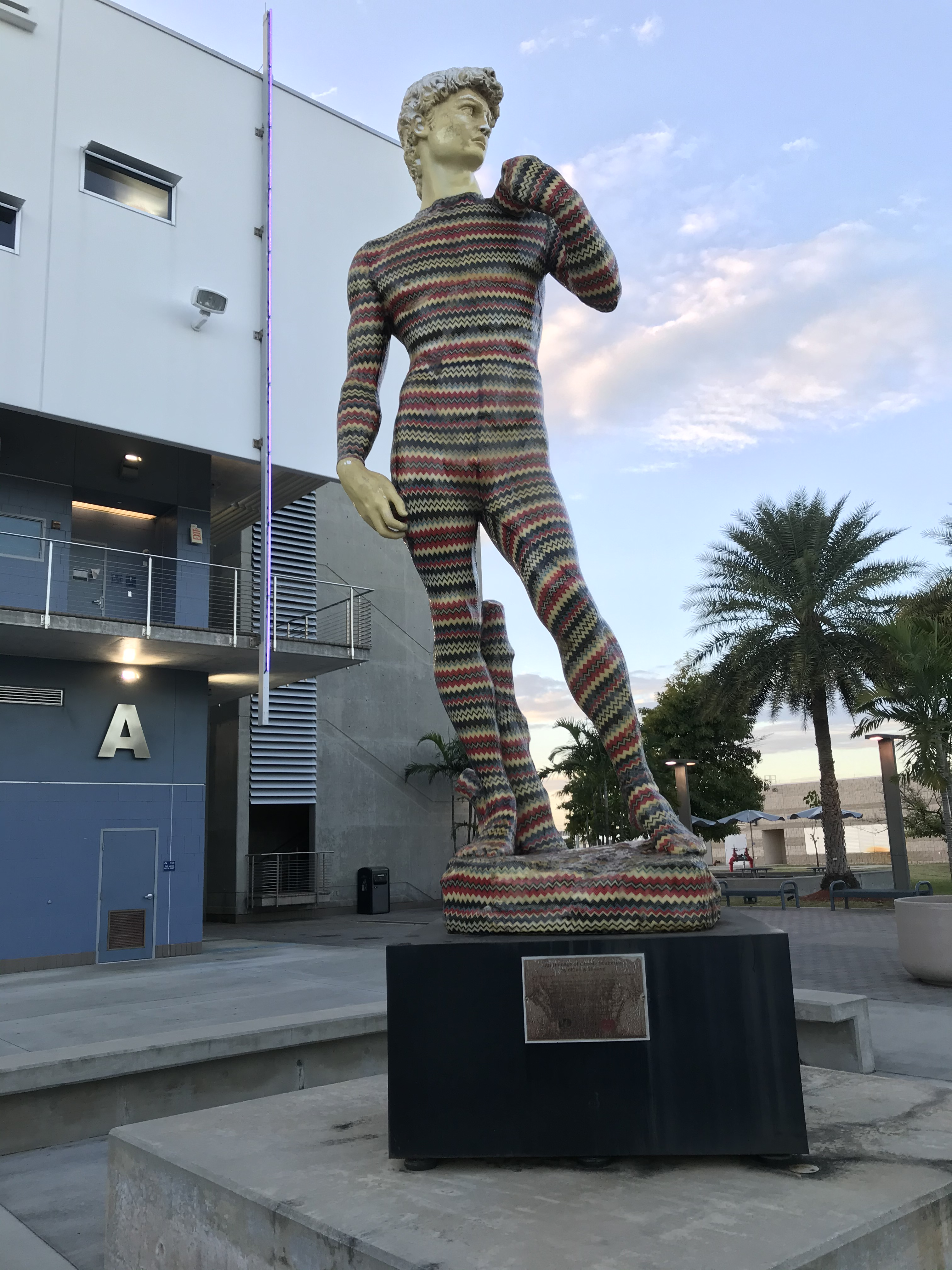 Modern depiction of David at MDC NorthCampus by dEmo and Missoni